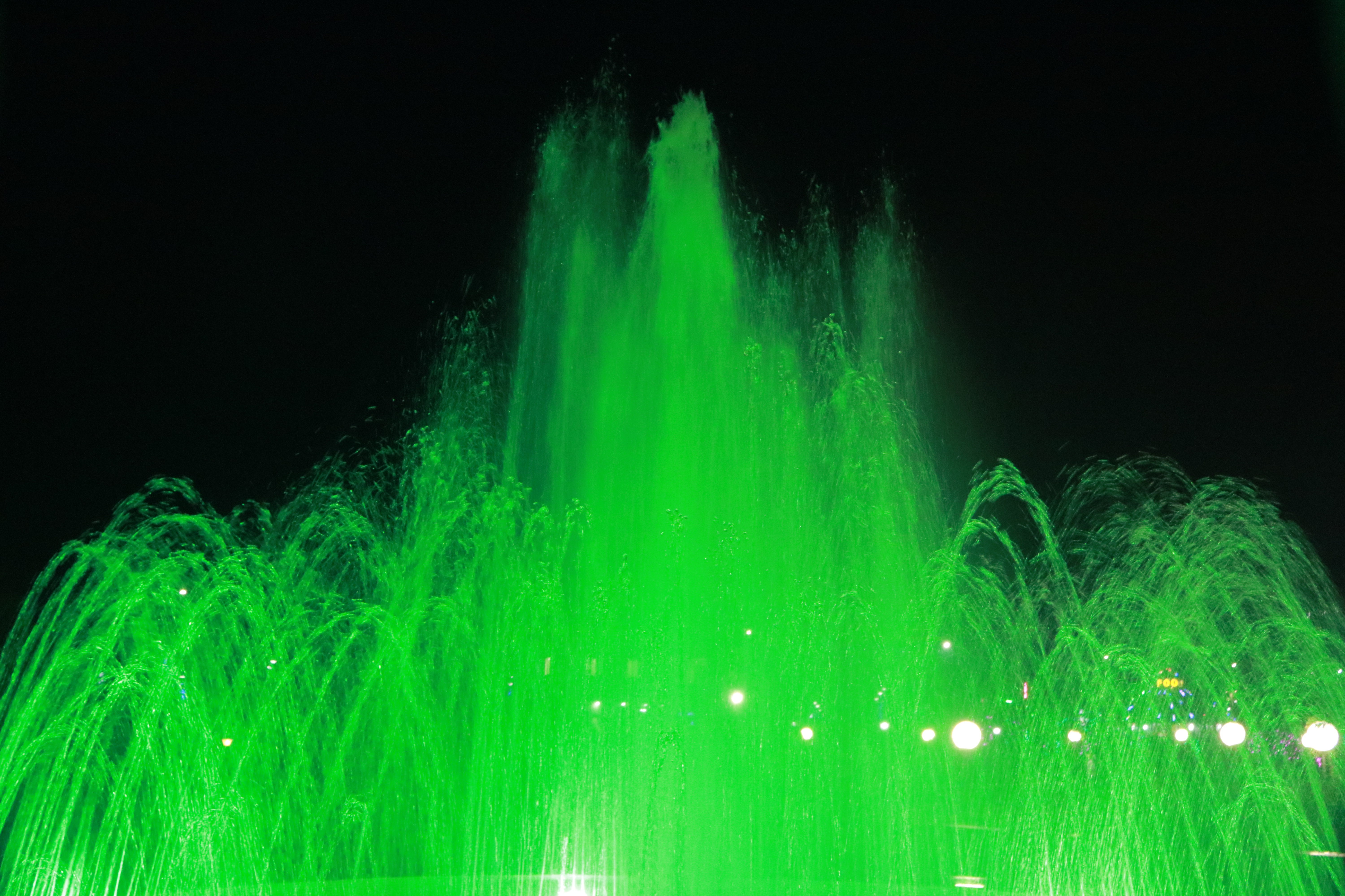 Musical Fountain at Eco Park , New Town , Kolkata , India ...